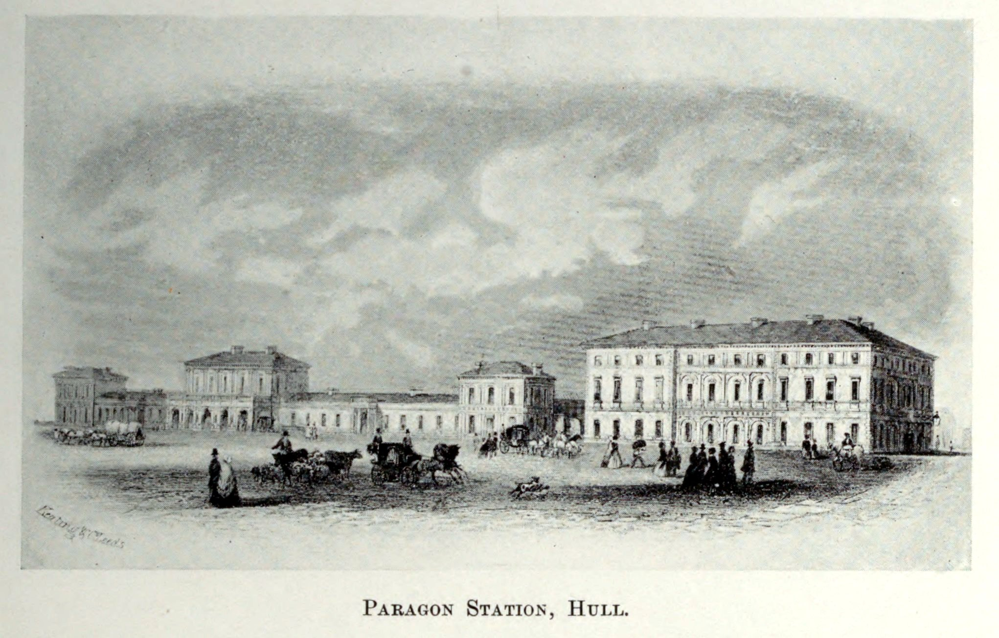 See list of illustrations in souce pages ix to xvi Descriptions are associated with images, also check index for additional text